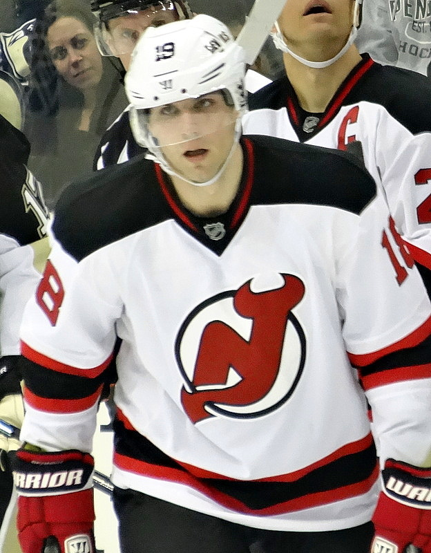 New Jersey Devils forward Steve Bernier skates against the Pittsburgh Penguins, February 2, 2013 at Consol Energy Center in Pittsburgh, PA.